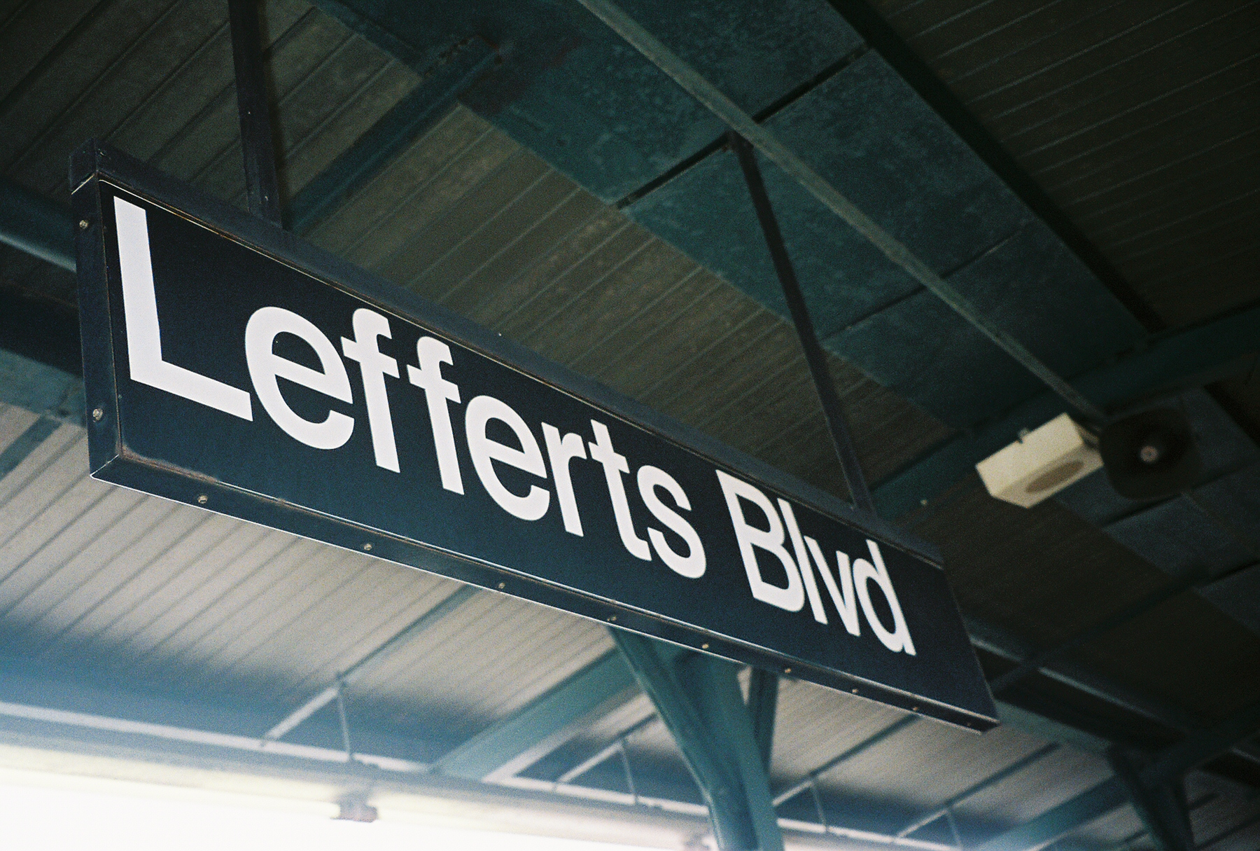 Photo for Wikipedia:Wikipedia Takes the Subway